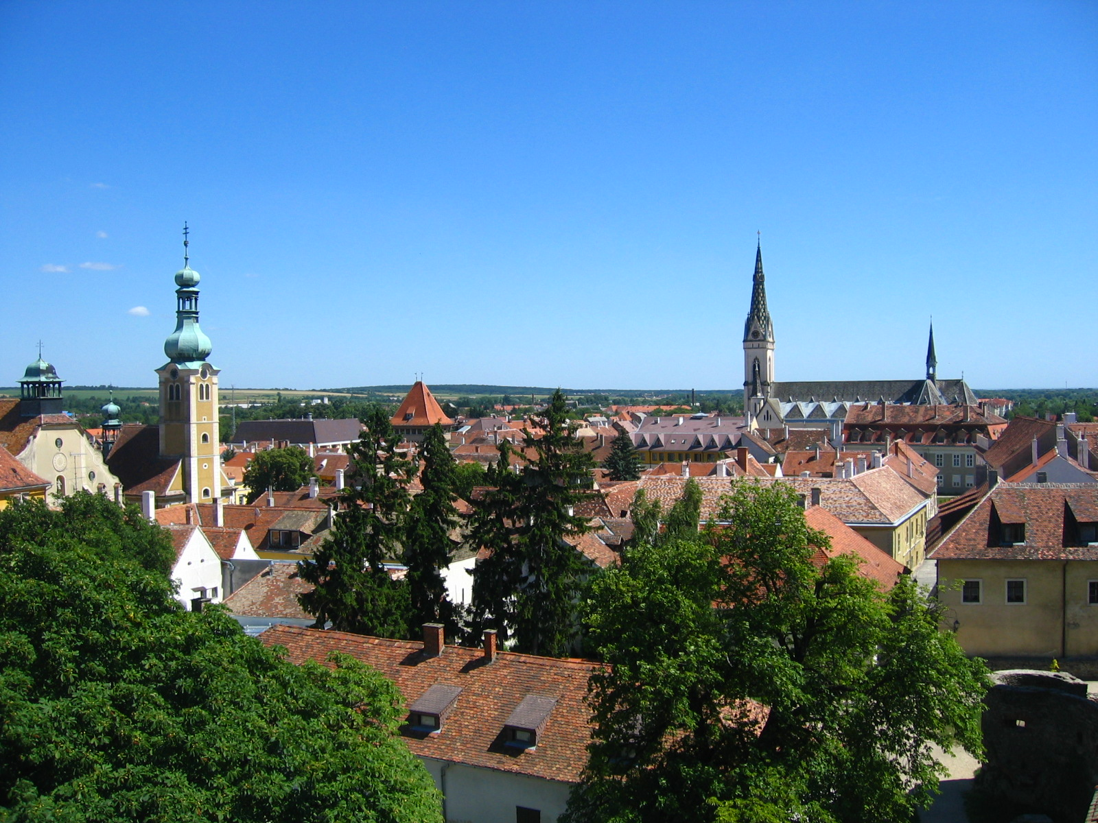 View on Kőszeg from Jurisics castle